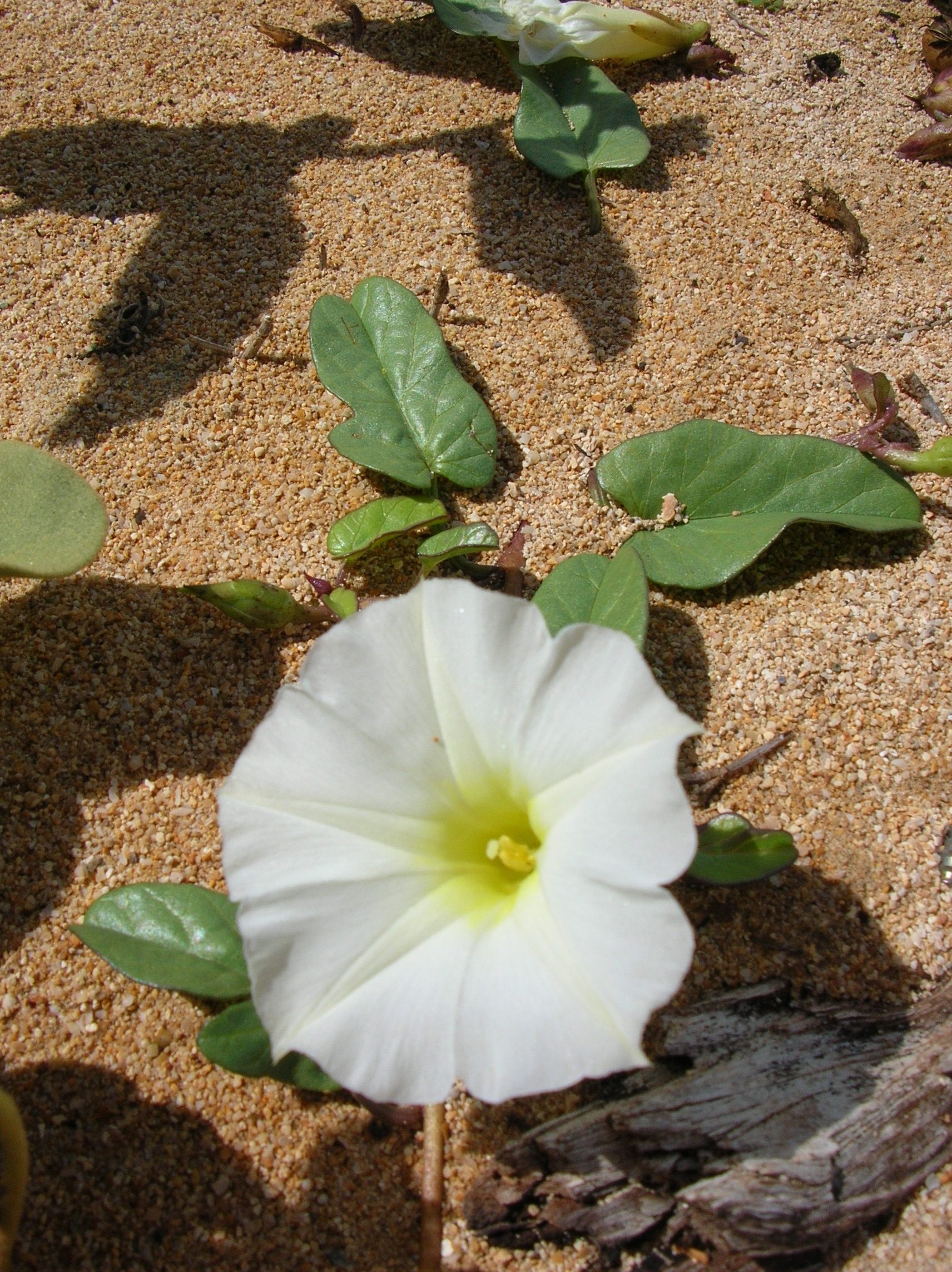 Ipomoea imperati (flower). Location: Maui, Kanaha Beach